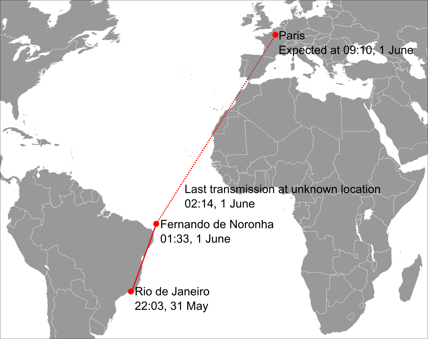 Flight path and predicted flight path of Air France Flight 447 on 31 May/1 June.